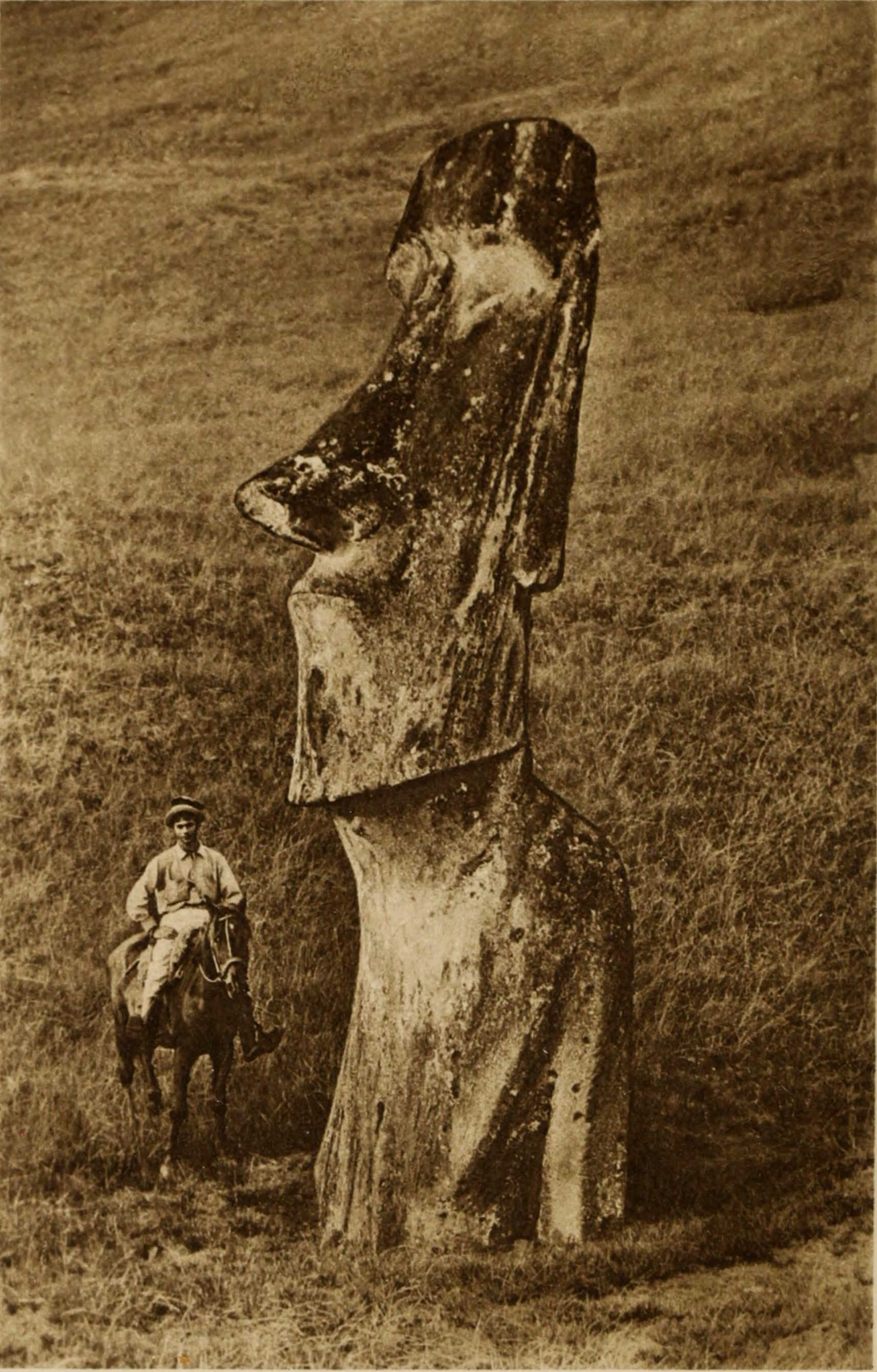 View of a moai (figure carving) standing upright, with a Chilean boy sitting on a horse for scale; Rano Raraku, Easter Island.